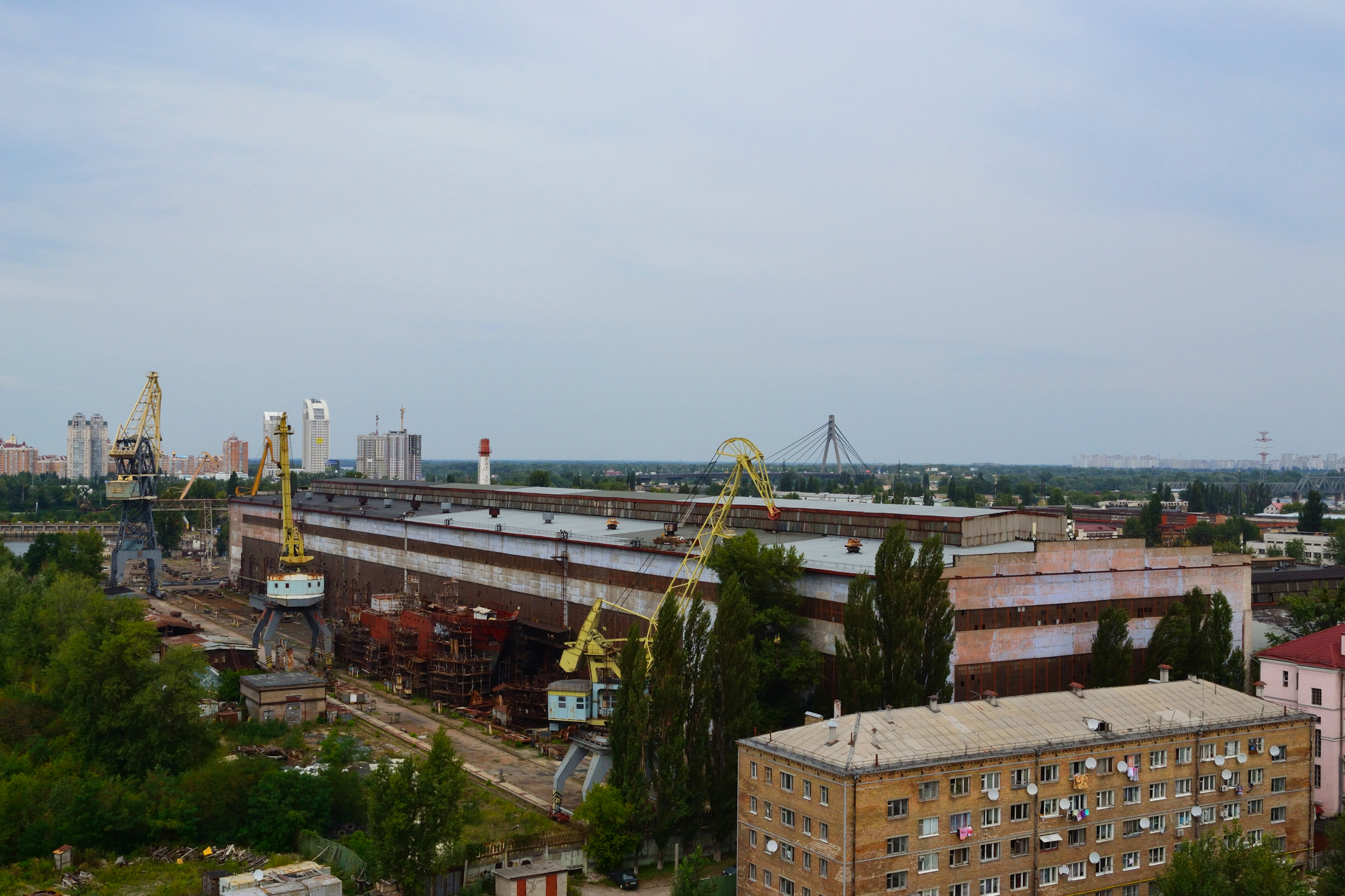 Kuznya na Rybalskomu